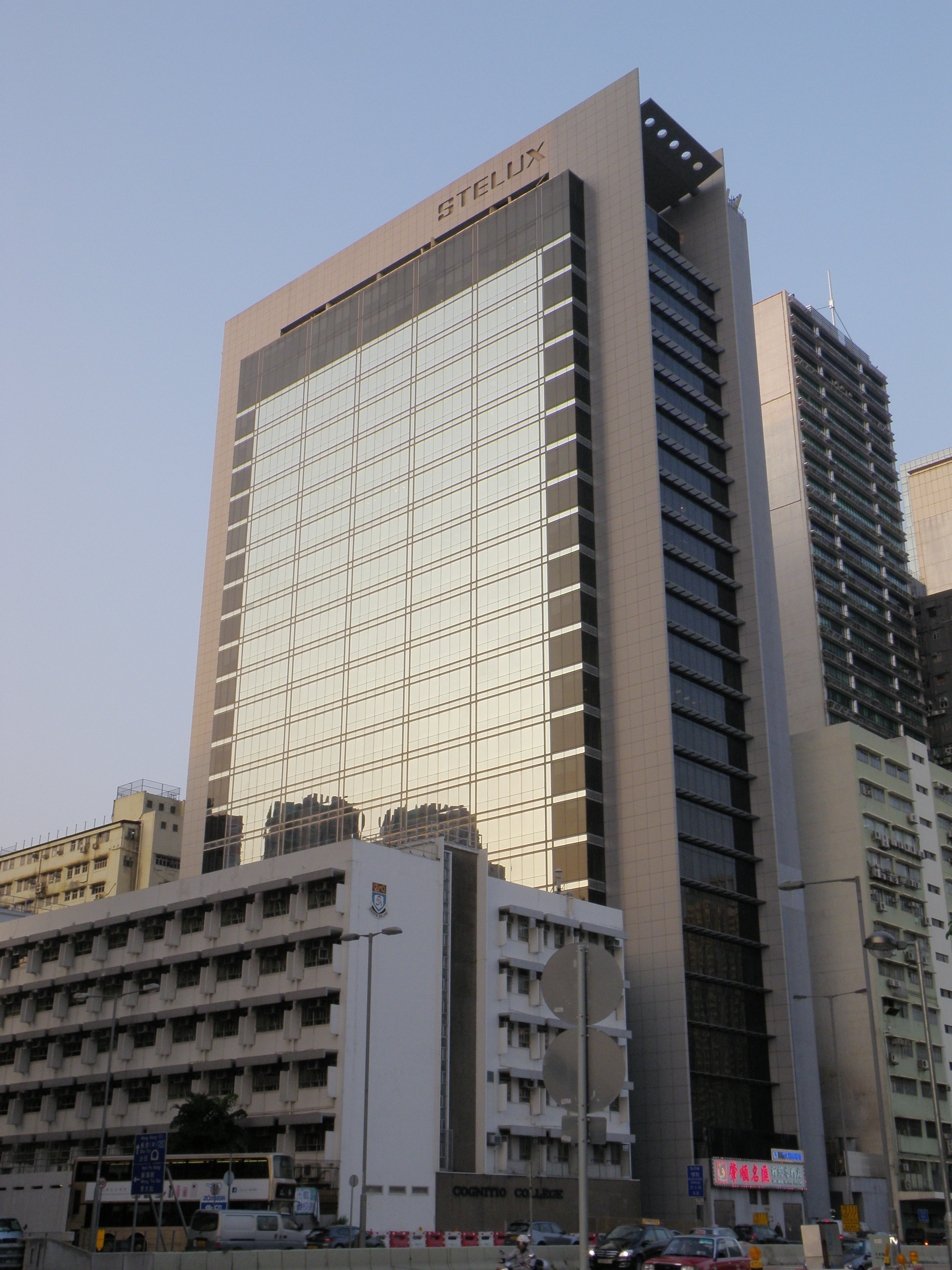 Stelux House in San Po Kong, Hong Kong.